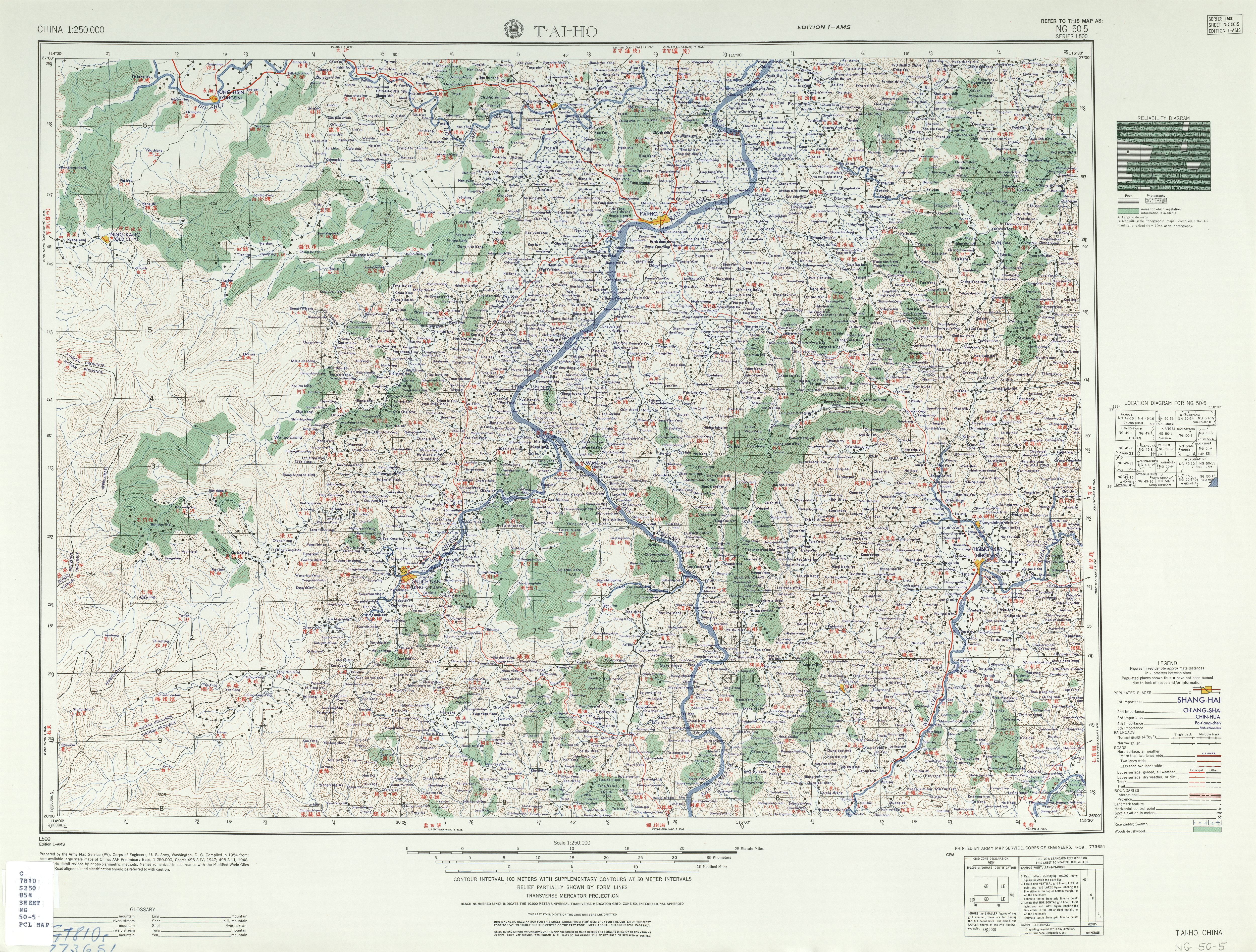 China AMS Topographic Maps